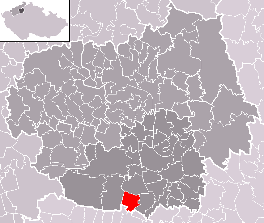 Location of Bříza municipality within Litoměřice District and administrative area of Roudnice nad Labem as a Municipality with Extended Competence.